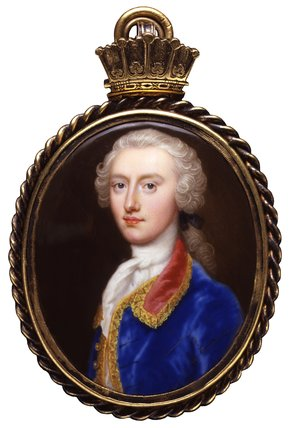 William Nassau